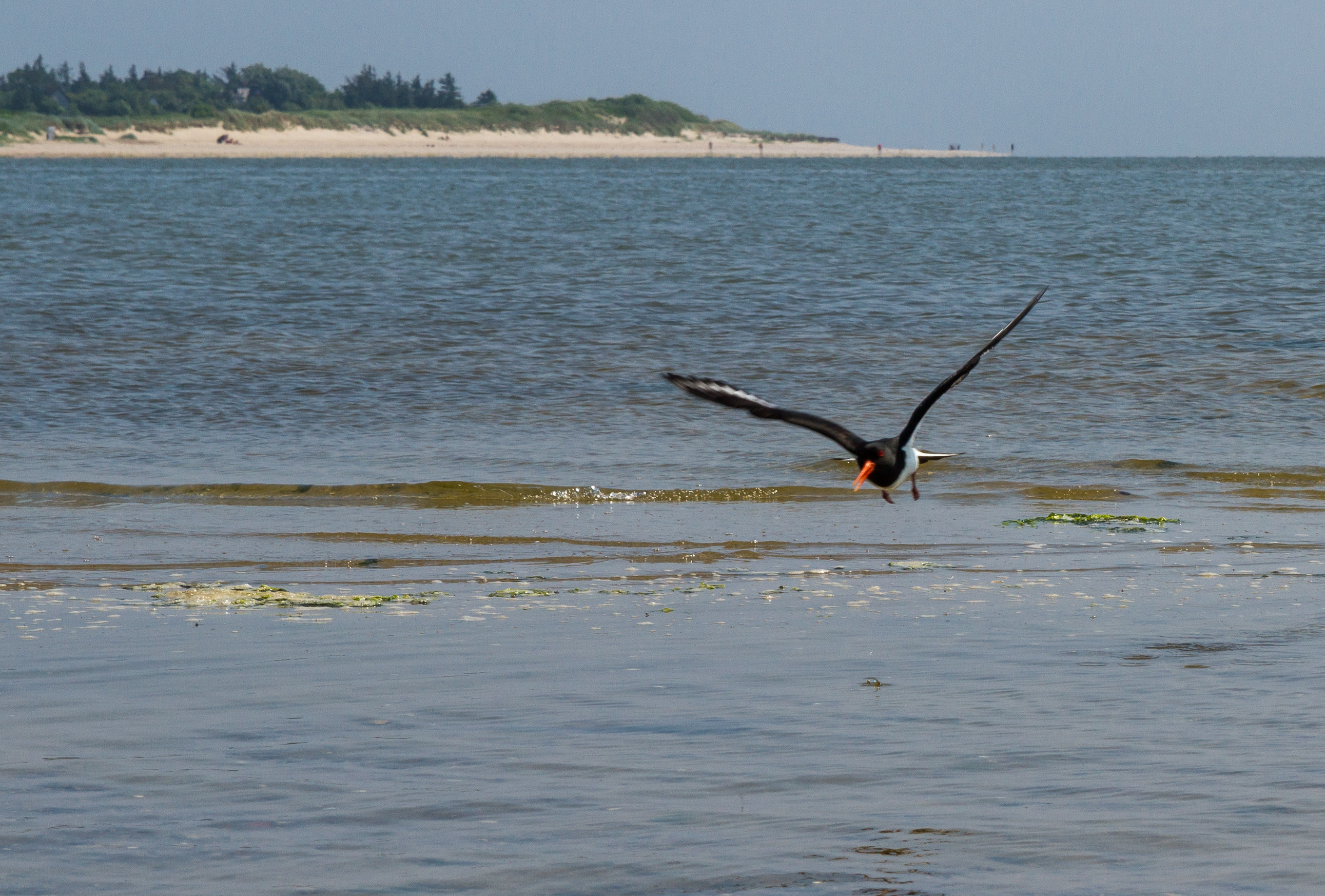 This is a picture of the protected area listed at WDPA under the ID 555537239 Designation: Godel lowland / Föhr Kind: Proposed Sites of Community Interest Nummer: DE-1316-301 Designation: Ramsar Convention Schleswig-Holstein Wadden Sea and adjacent coastal areas Kind: Bird reserve Nummer: DE-0916-491 Description: On the south coast of the island of Föhr, the creeks Godel, Wiel and Luer brings salt water in the lowland unprotected by levee below the edge of the geest. It is a extended salt marsh landscape in lagoon location which is crossed by the stream Godel. The lowland area is an important bird breeding and resting area. Place: Municipality Witsum, Collective municipality Föhr-Amrum, District Nordfriesland, Schleswig-Holstein, Germany Location: Klavertsweg